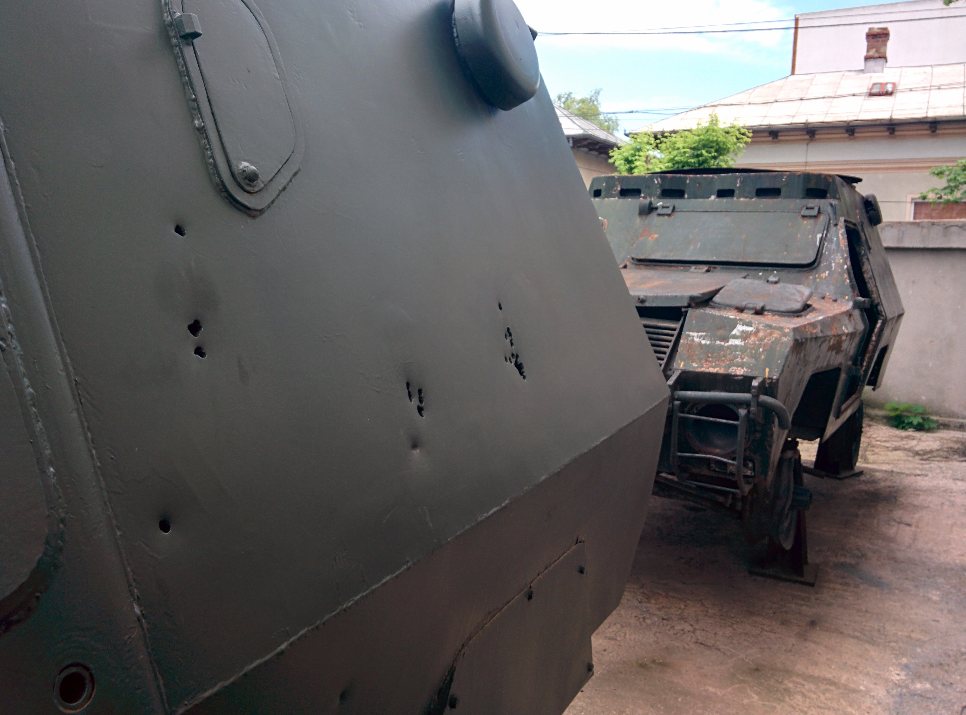 ABI 100 (Autovehicul Blindat pentru Intervenție) armoured car on display at King Ferdinand National Military Museum, Bucharest. Built at S.C Uzina Automecanica Moreni S.A., it was based on the ARO 240.